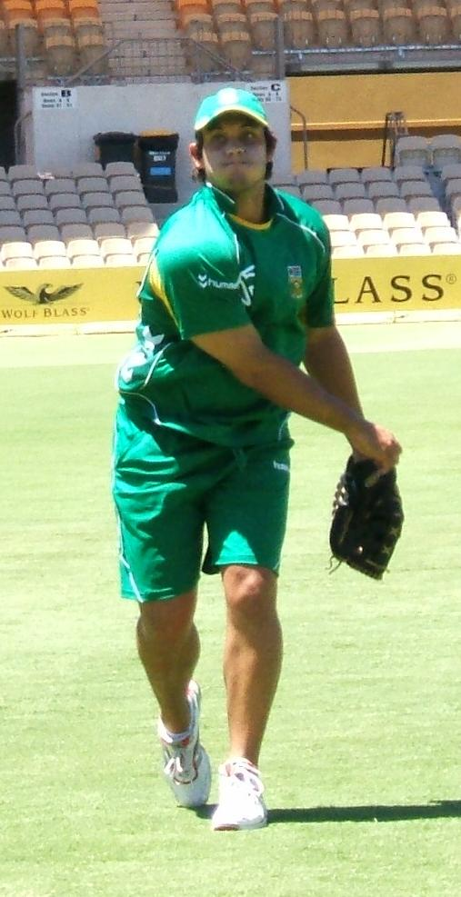 Vaughn_van_Jaarsveld at a training session at the Adelaide Oval